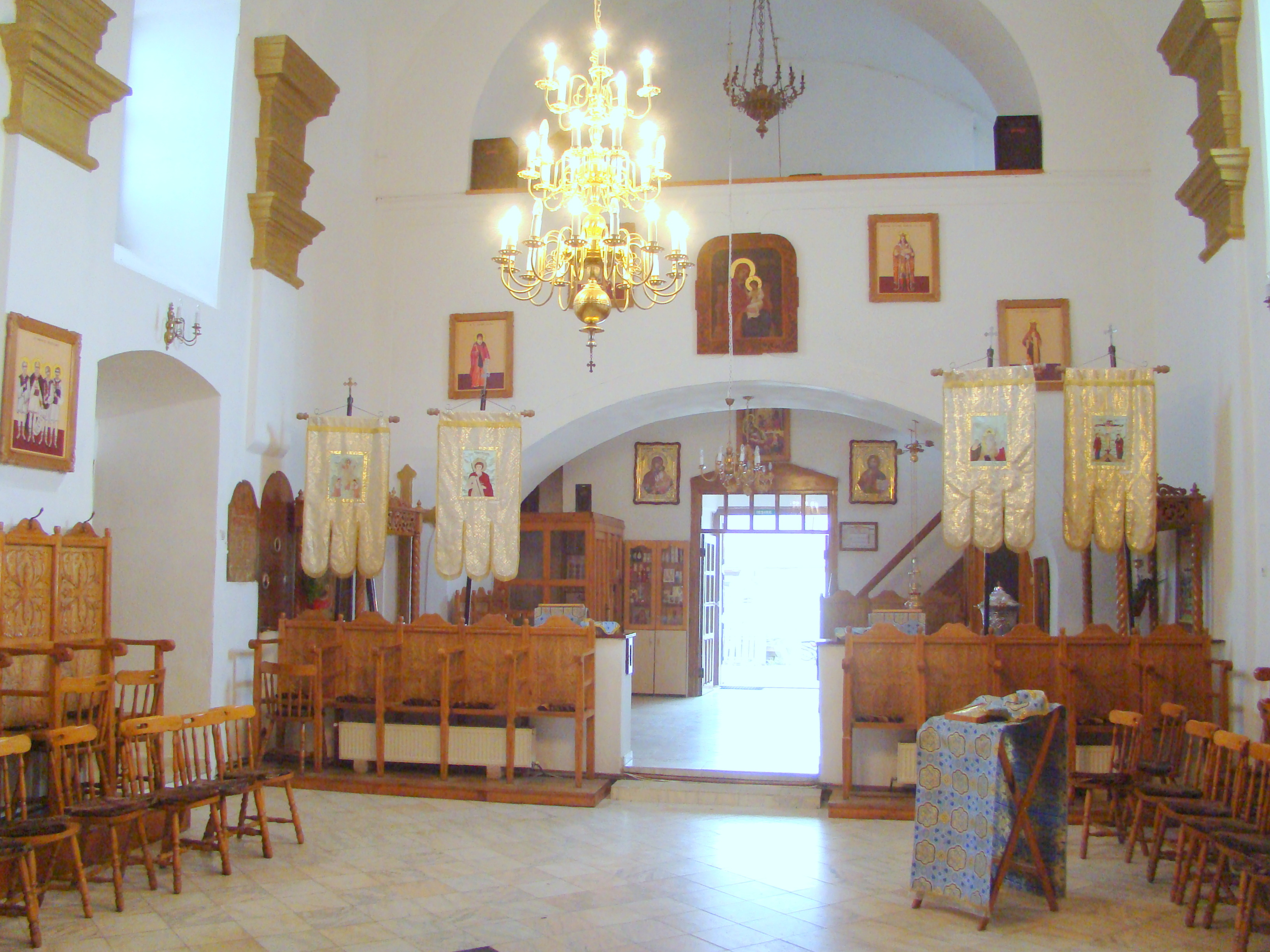 Saint John the Baptist's church in Caransebeș, Caraș-Severin county, Romania